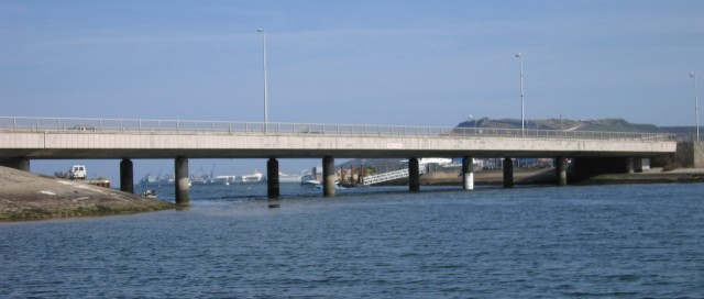 The new road bridge at Ferrybridge The new road bridge spanning the Fleet and joining Wyke Regis to Portland